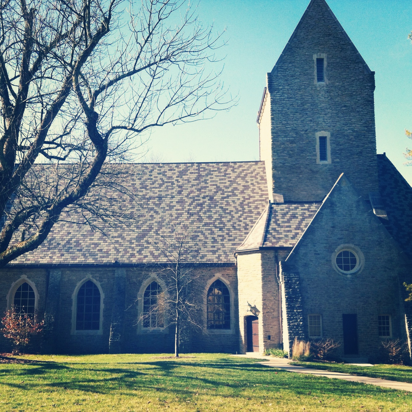 This photograph was taken of Kumler Chapel in the fall of 2011